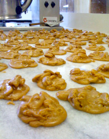 Freshly hand-scooped pralines from Southern Candymakers and cooling on the marble slab. These are the original creamy pralines, scooped daily in Southern Candymakers French Quarter kitchen.